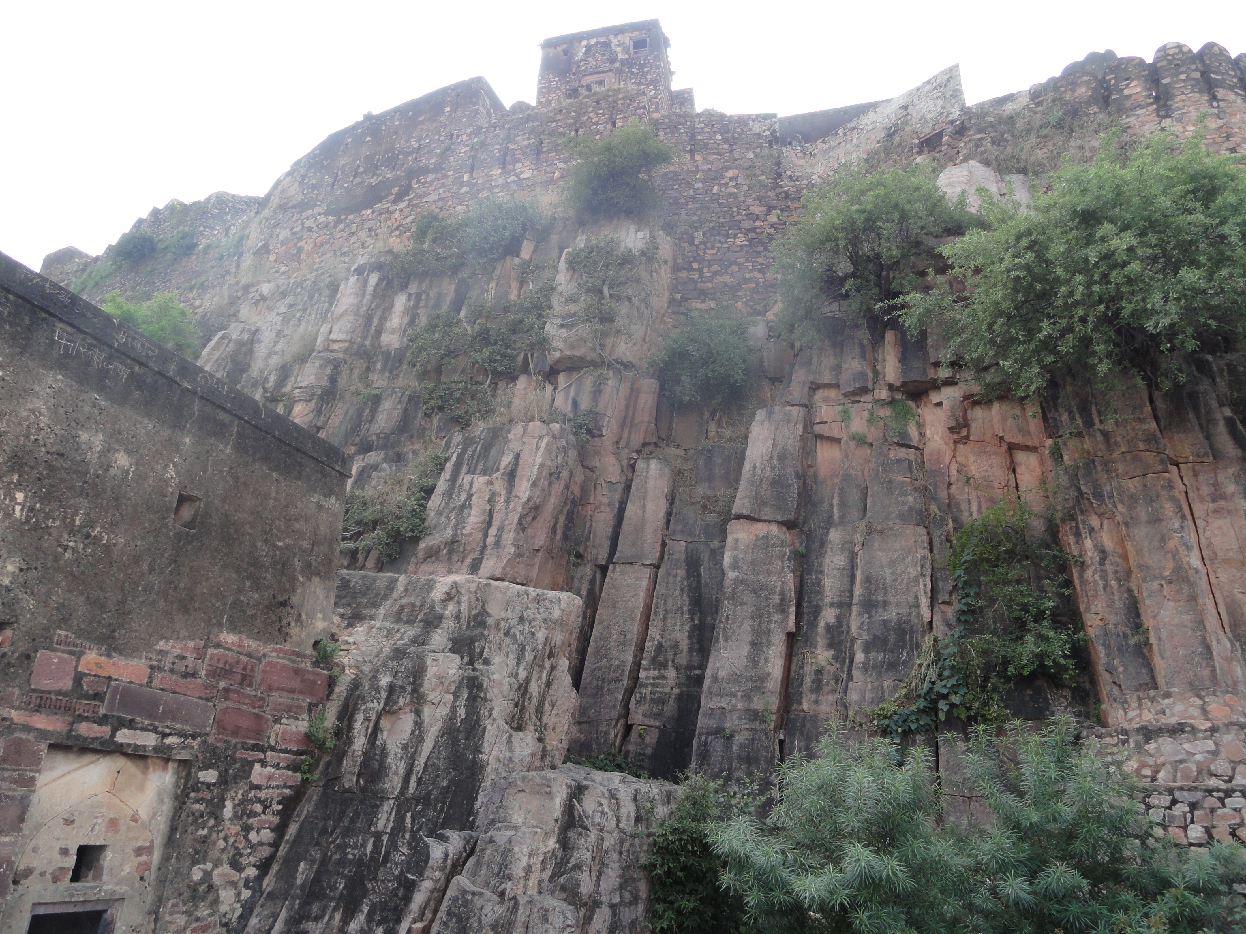 Ranthambhor Fort